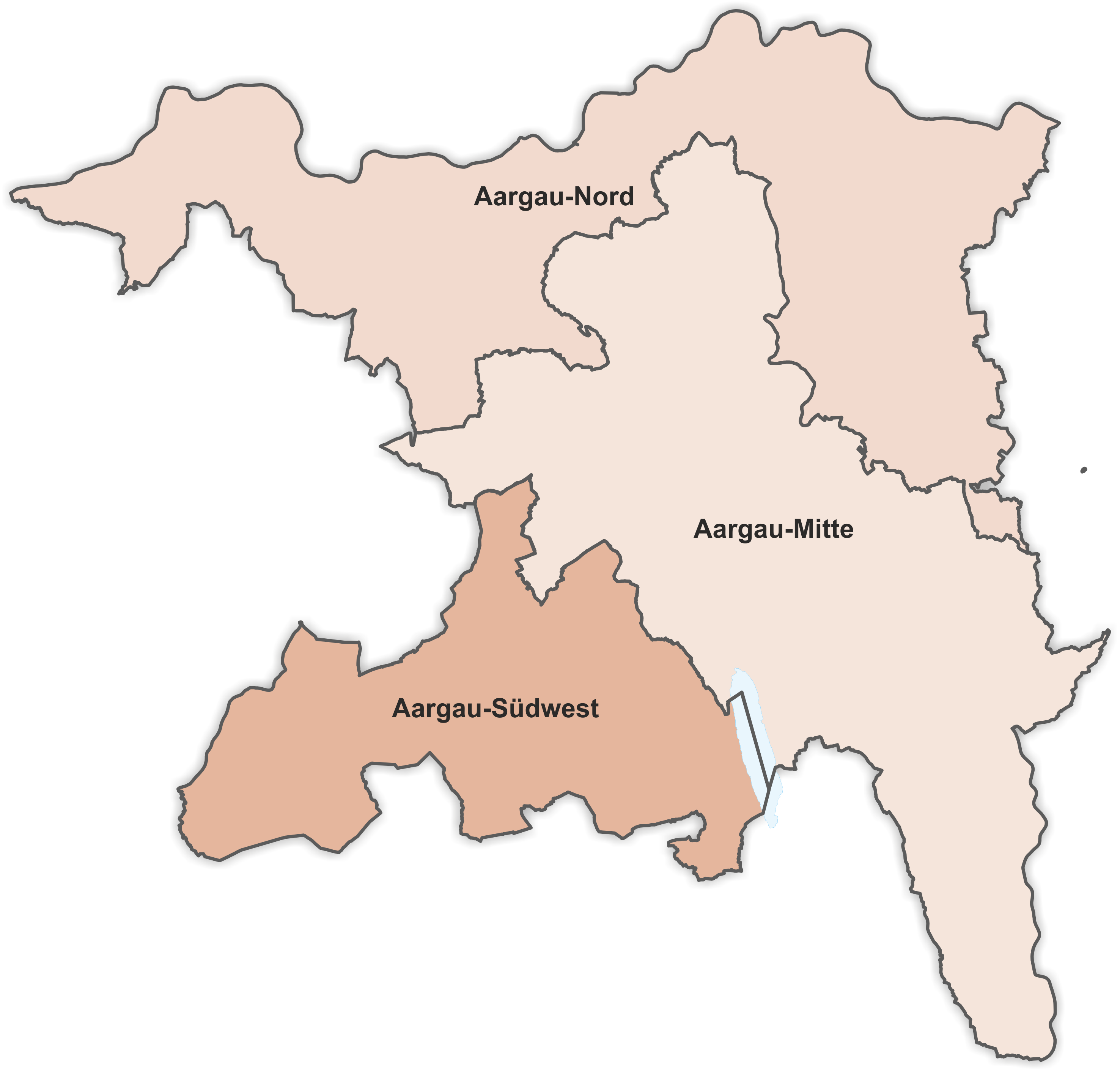 National council constituencies in the canton of Aargau from 1851 to 1887